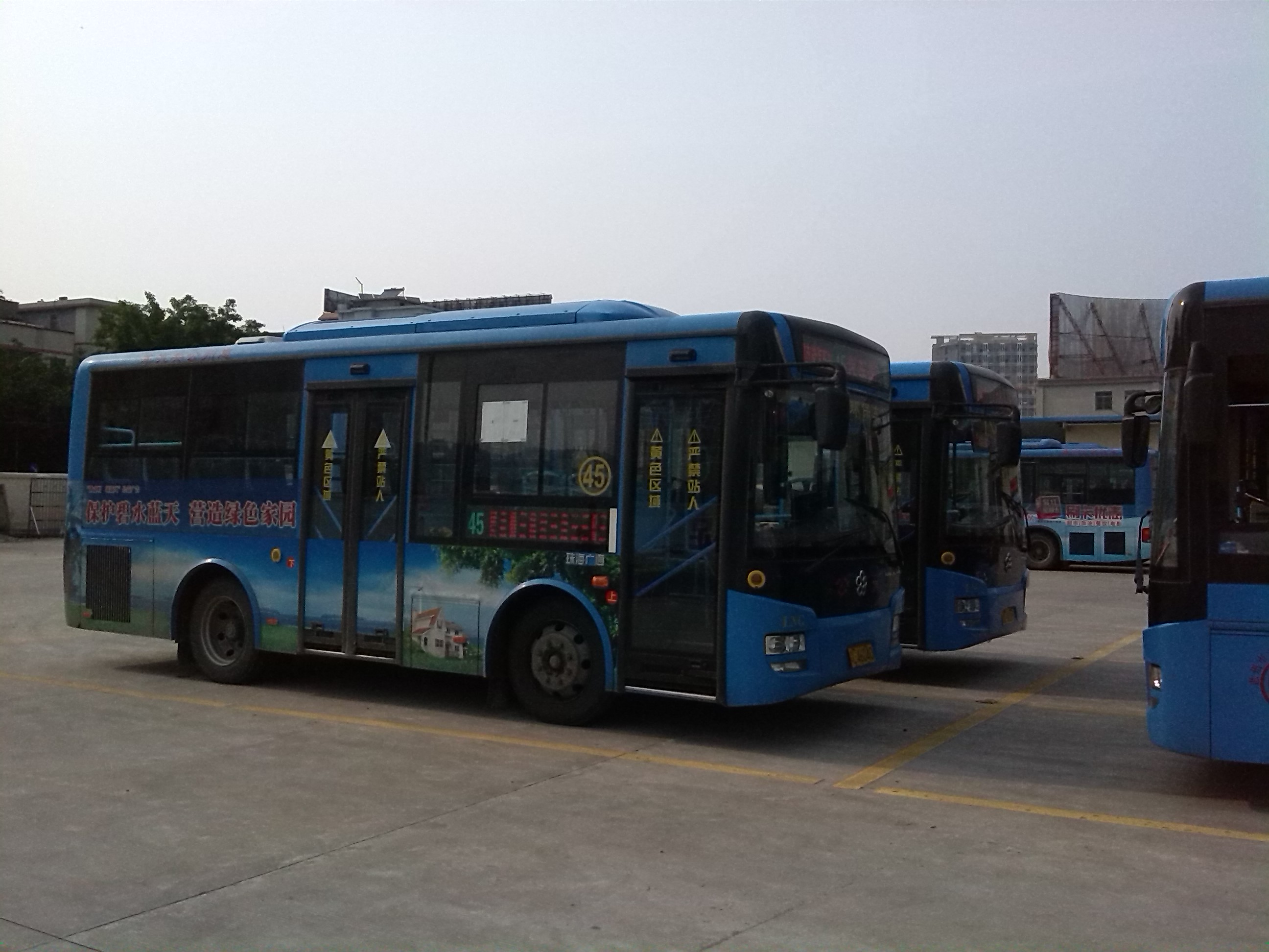 A Granton GTQ6762N4GJ bus which is powered by liquid natural gas and enlisting on Huizhou City Bus Corporation Route 45. The plate number of this bus is "粤L•46040" . The photo was taken at He'nan'an Parking Lot.